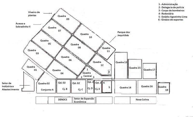 Map of Sobradinho, Federal District, Brazil